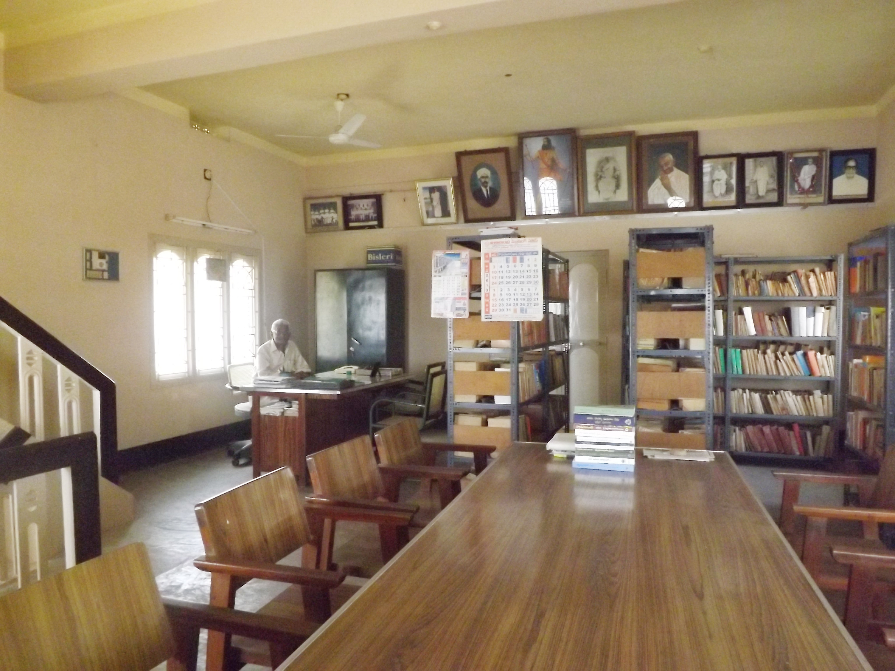 Sri Veeresalinga Kavi Samaja Library of Kumudavalli, Andhrapradesh